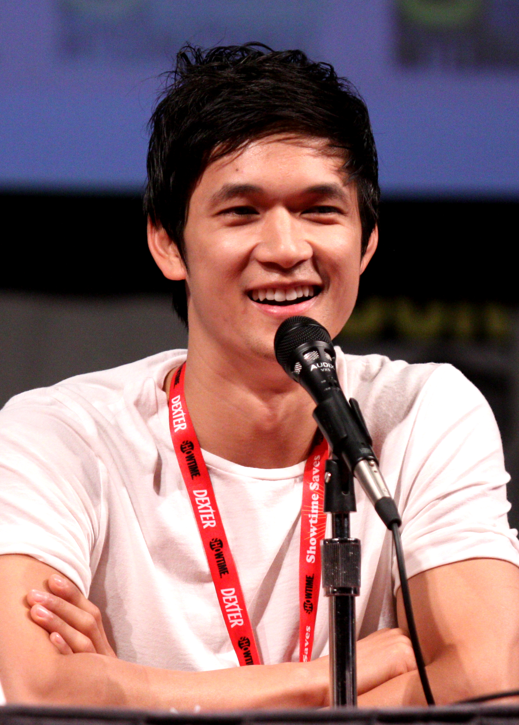 Harry Shum, Jr. at the 2011 Comic Con in San Diego